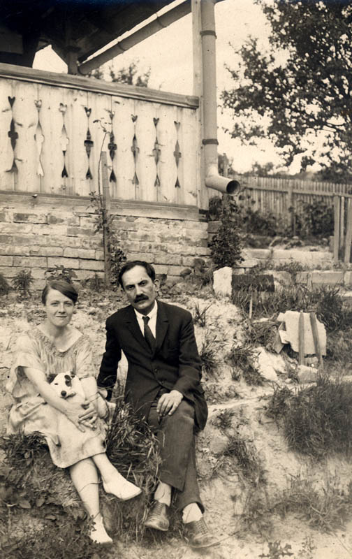 Sophie Török (Ilona Tanner) and Mihály Babits in front of their house in Esztergom.